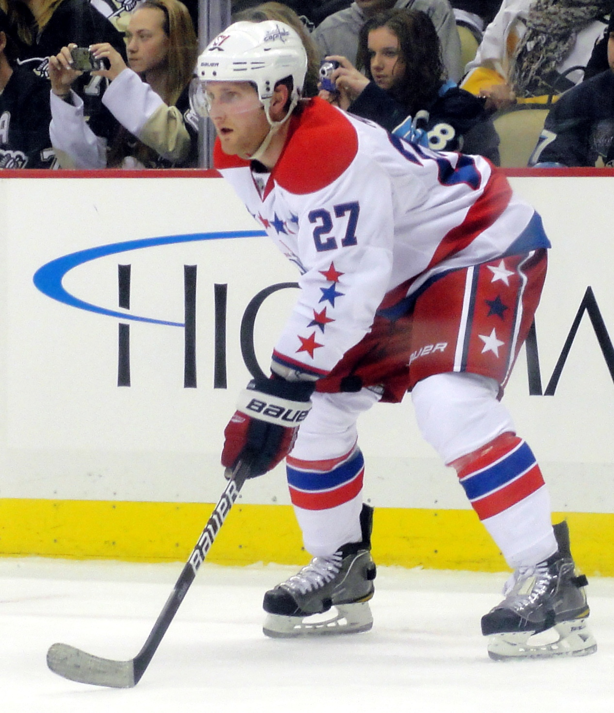 Washington Capitals defenseman Karl Alzner skates against the Pittsburgh Penguins, January 22, 2012 at Consol Energy Center in Pittsburgh, PA.